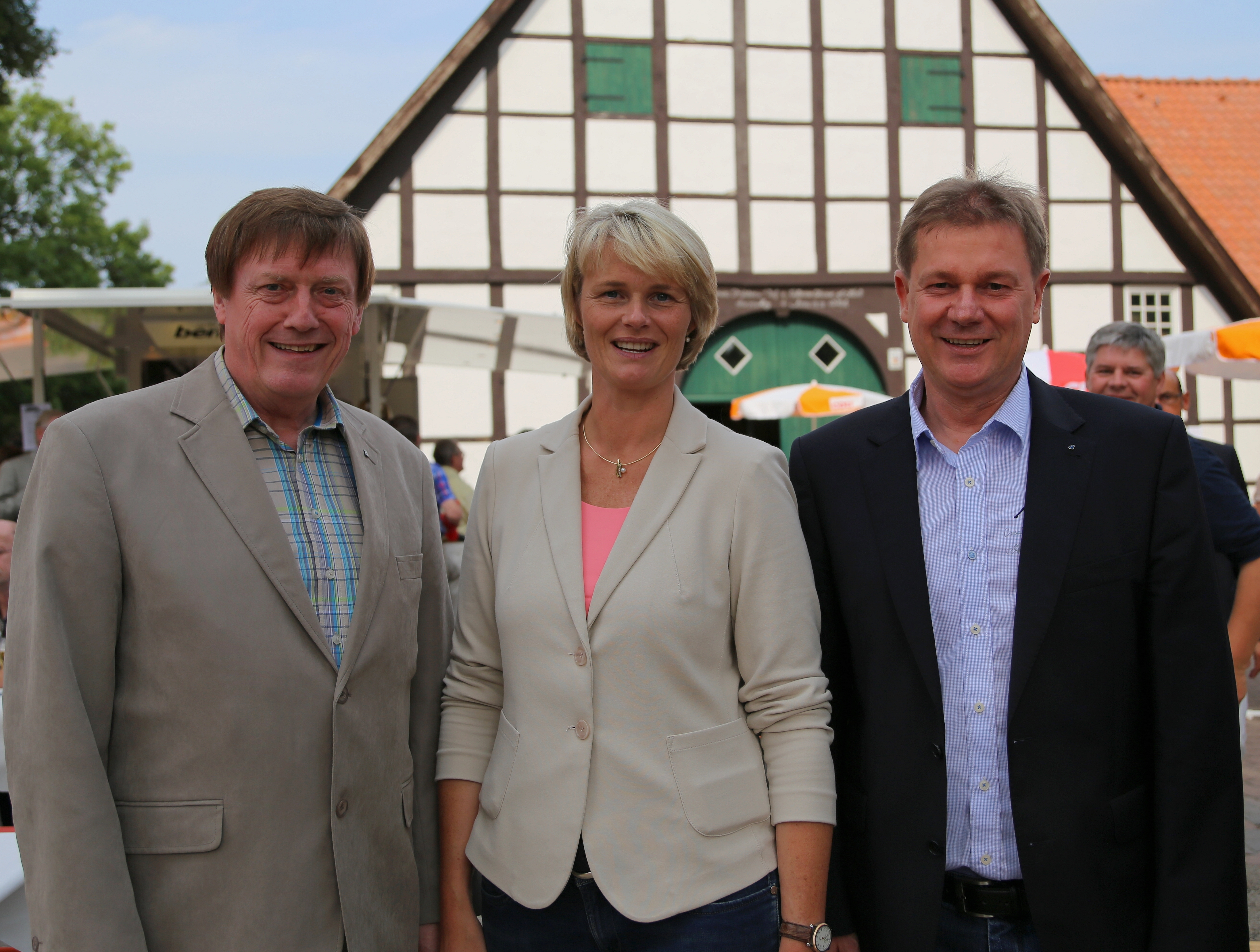 The CDU politicians (left to right) Wilfried Grunendahl (member of Landtag of North Rhine-Westphalia), Anja Karliczek (CDU Bundestag candidate) and Dr. Markus Pieper (member of the European Parliament) at the Schultenhof in Mettingen, Kreis Steinfurt, North Rhine-Westphalia, Germany.